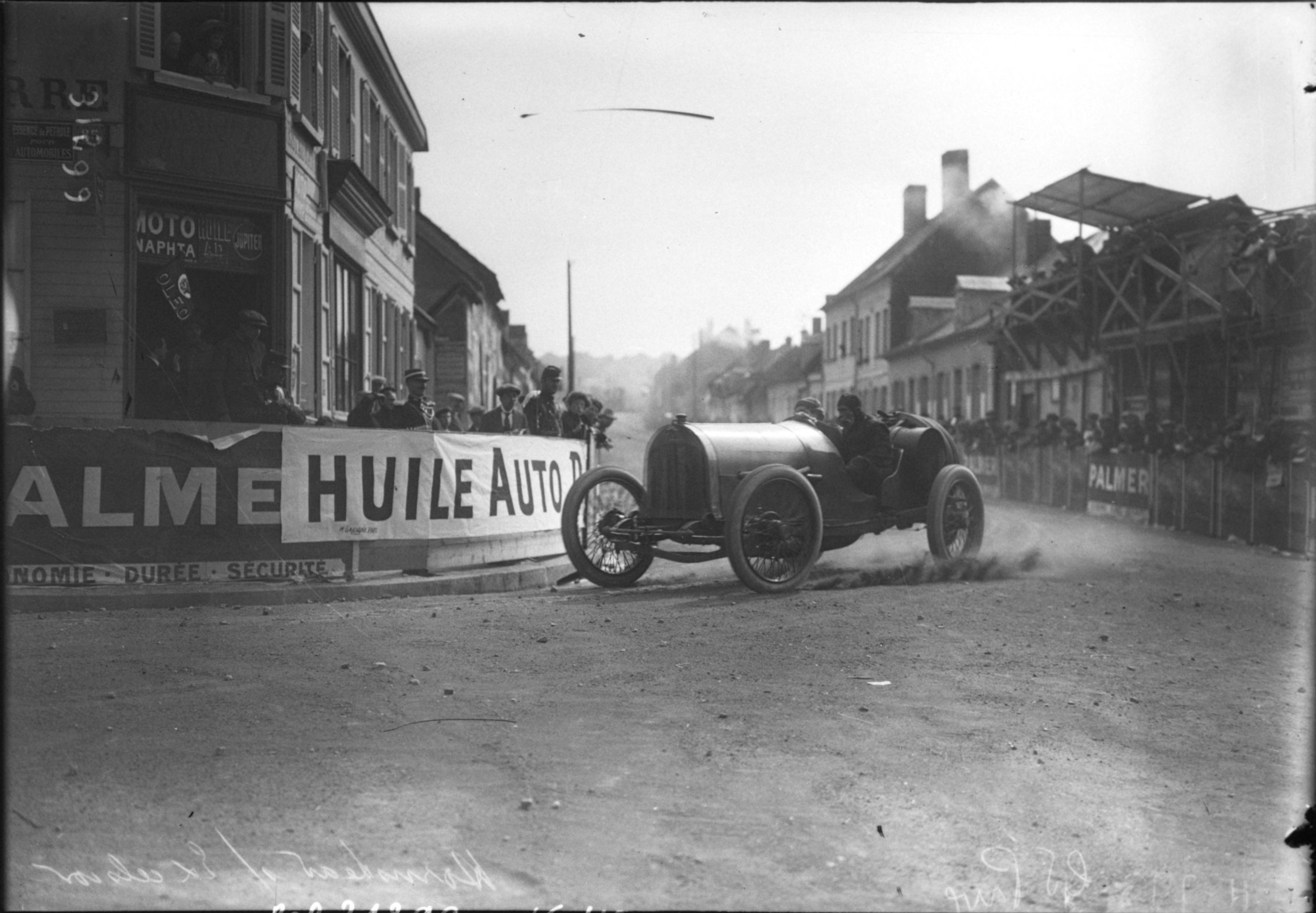 Sigurd Hornsted at the 1913 French Grand Prix